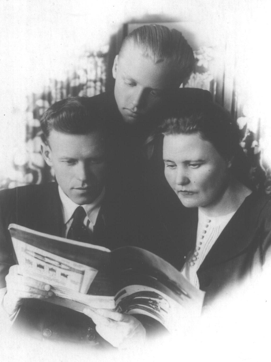 Vasiliy Kuzmich Scherbakov with spouse Agniya and son Yuriy, circa 1945